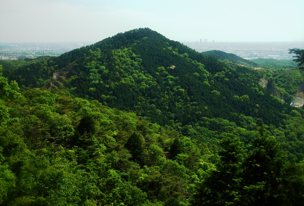 Hongusan_from_Owarifuji_2008-5-15